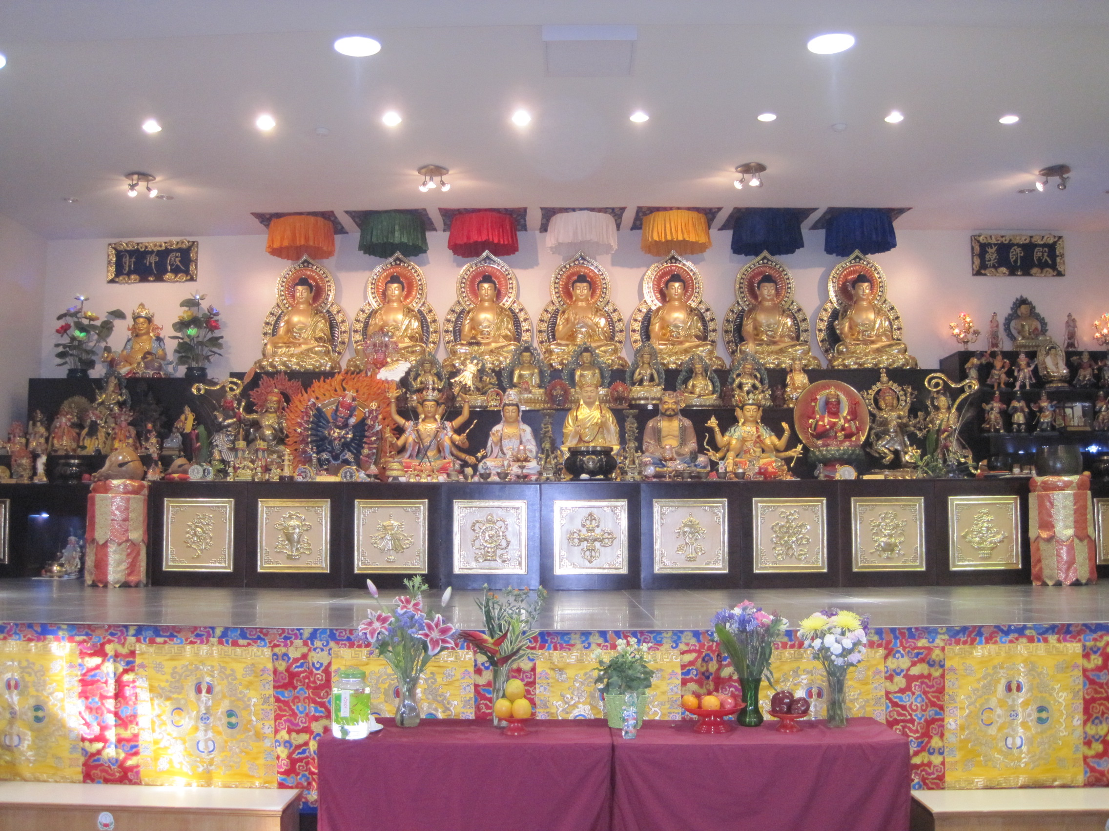 Picture of the Calgary True Buddha Pai Yuin Temple's shrine following their expansion and renovation in 2010. Calgary True Buddha Pai Yuin Temple